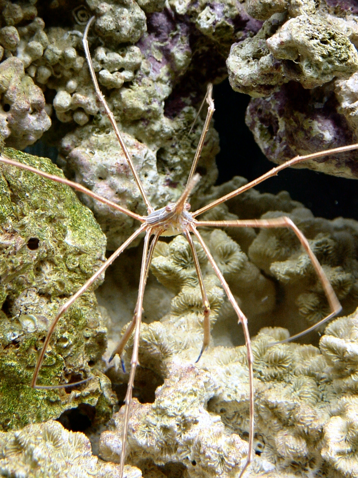 Common name: Arrow Crab Scientific name: Stenorhynchus seticornis Source: Fred Hsu, February 2000.